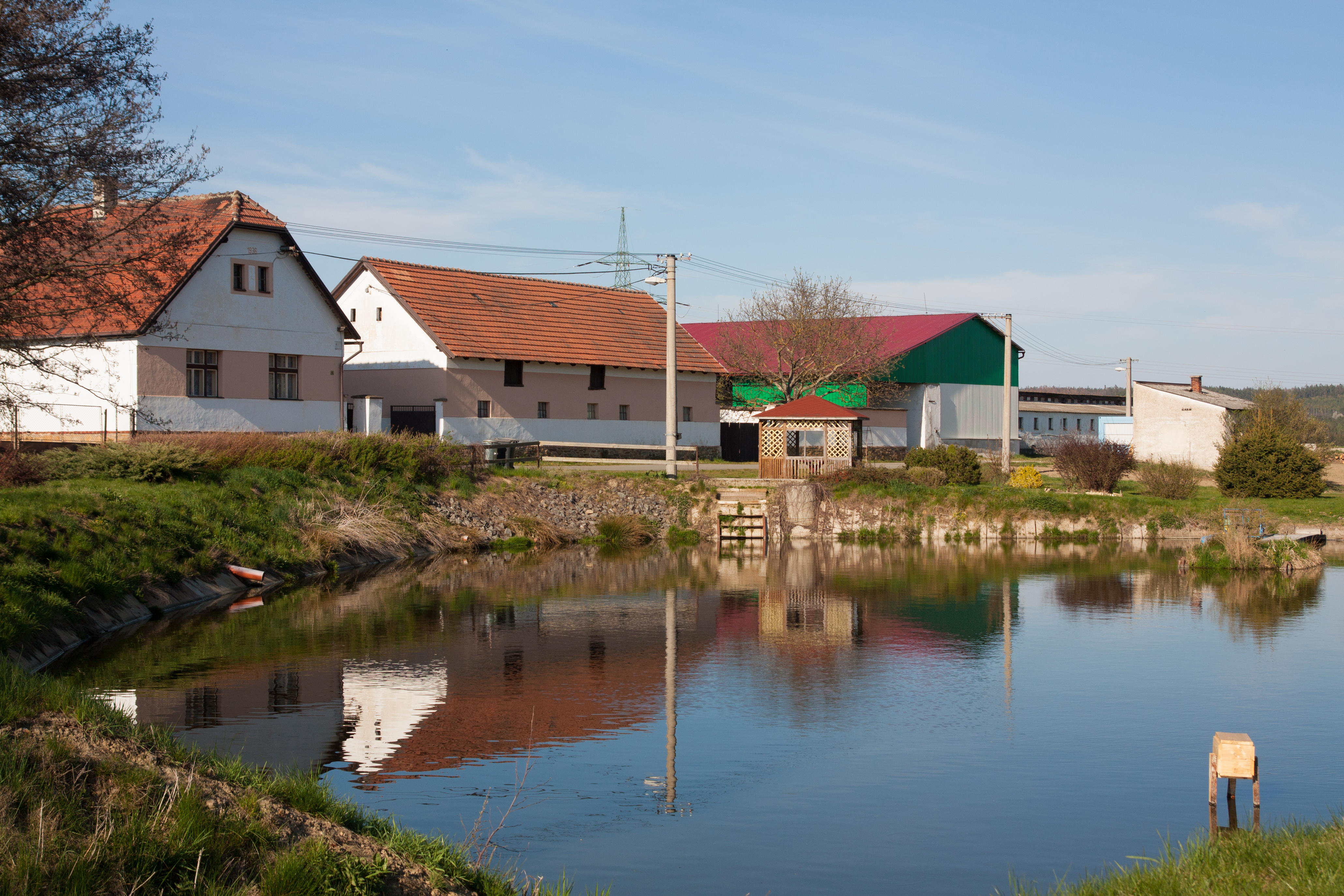 Pond in municipality Sedlečko, Tábor District, South Bohemian Region, Czechia